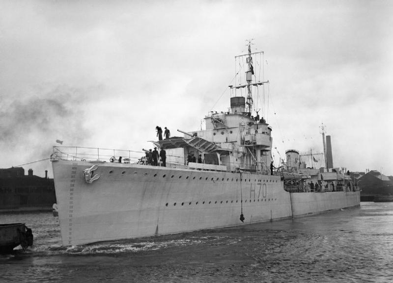 Photograph of British F class destroyer HMS Fortune.